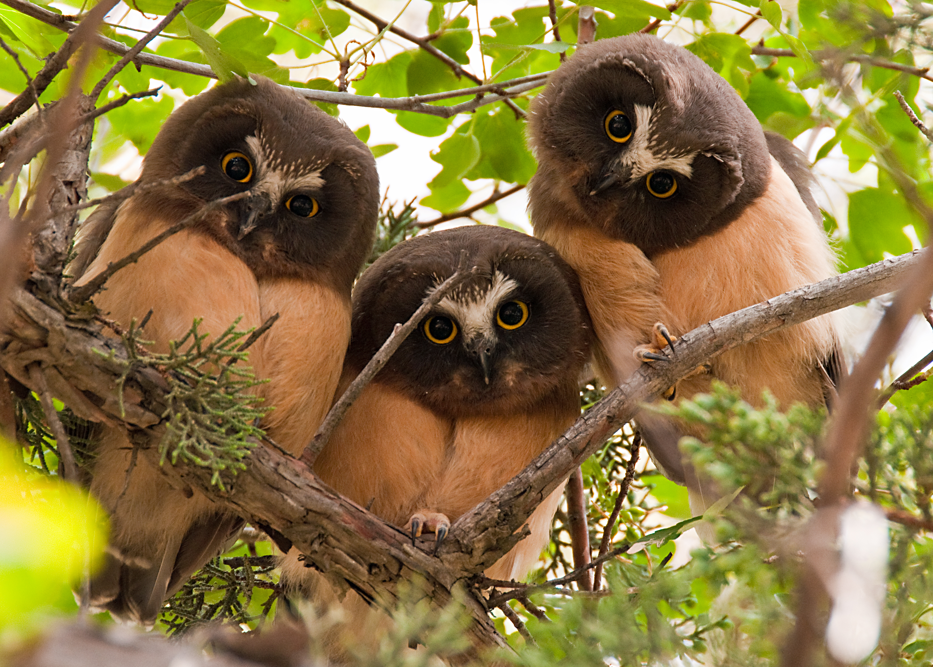 Three juvenile Northern Saw-whet Owls in Fossil, Oregon, USA.